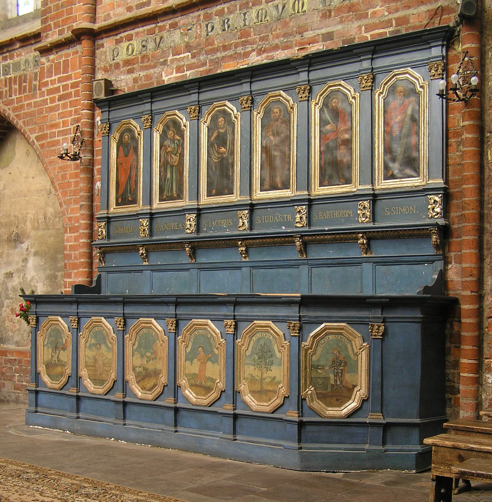 Toruń, church of St. James, choir stalls, beginning of the 17th cent. and after 1667